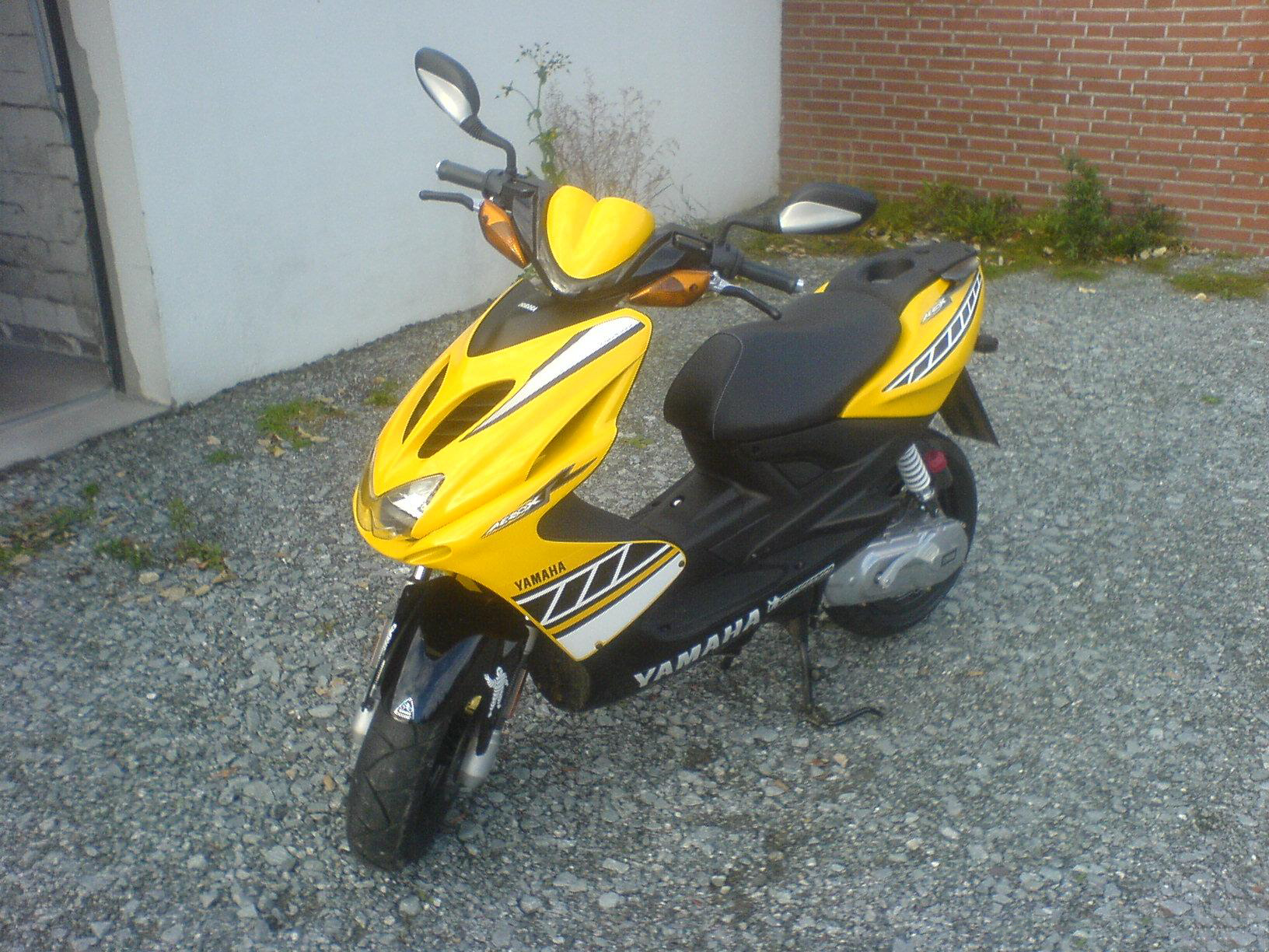 Yamaha Aerox